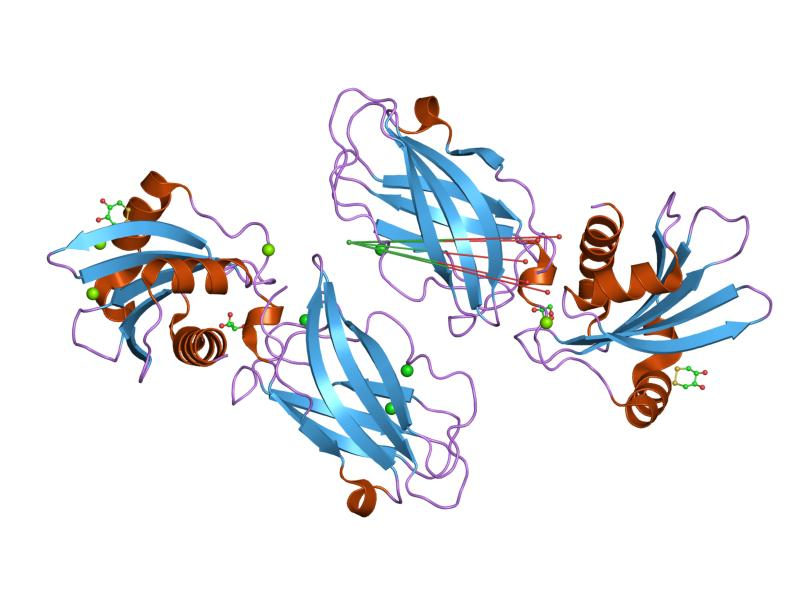 Cartoon representation of the molecular structure of protein registered with 1e42 code.